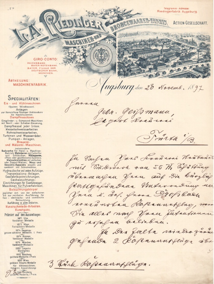 A letter from the L. A. Riedinger mechanical engineering company, Augsburg (Germany) to the Gebrüder Geismann Beer Brewery in Fuerth (Franconia) dated on the 23rd of November 1897. Source: Archive of the Geismann Family.